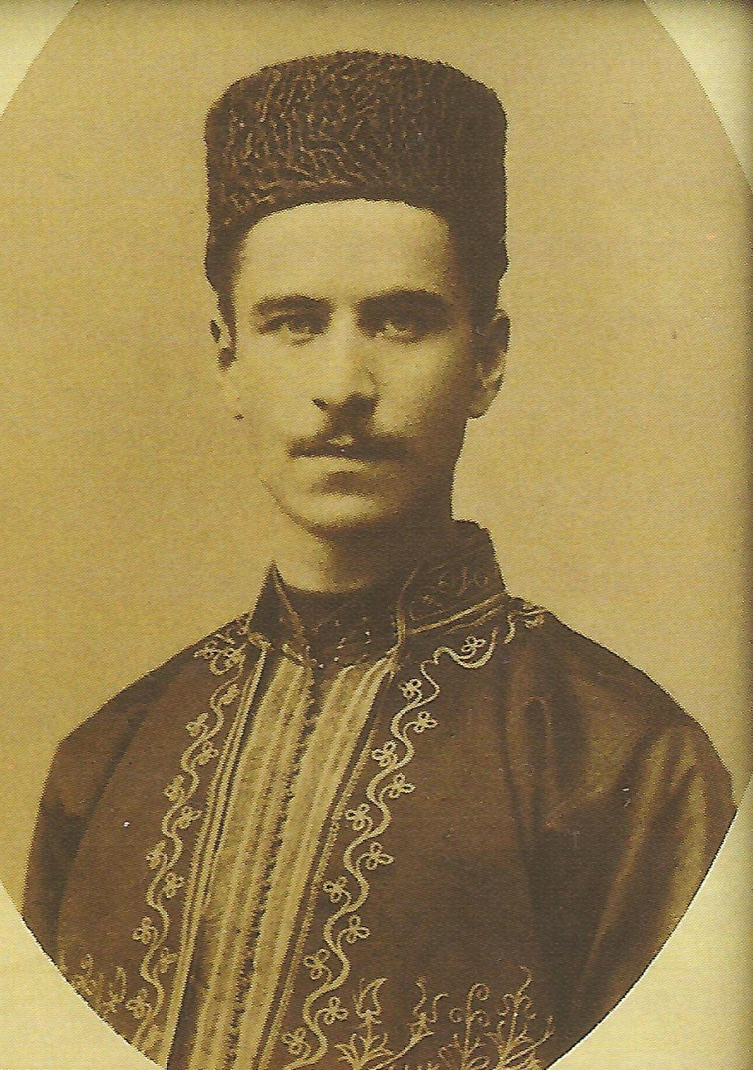 Portrait of Szeraya Szapszal (1873-1961)